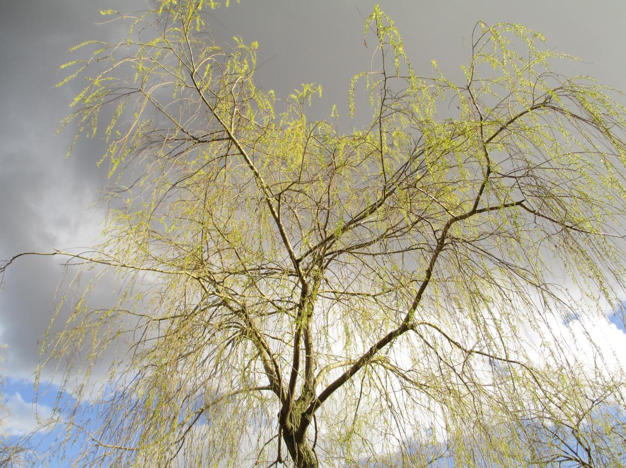 Springtime arrivingPlace: Observatorielunden, Stockholm, Sweden